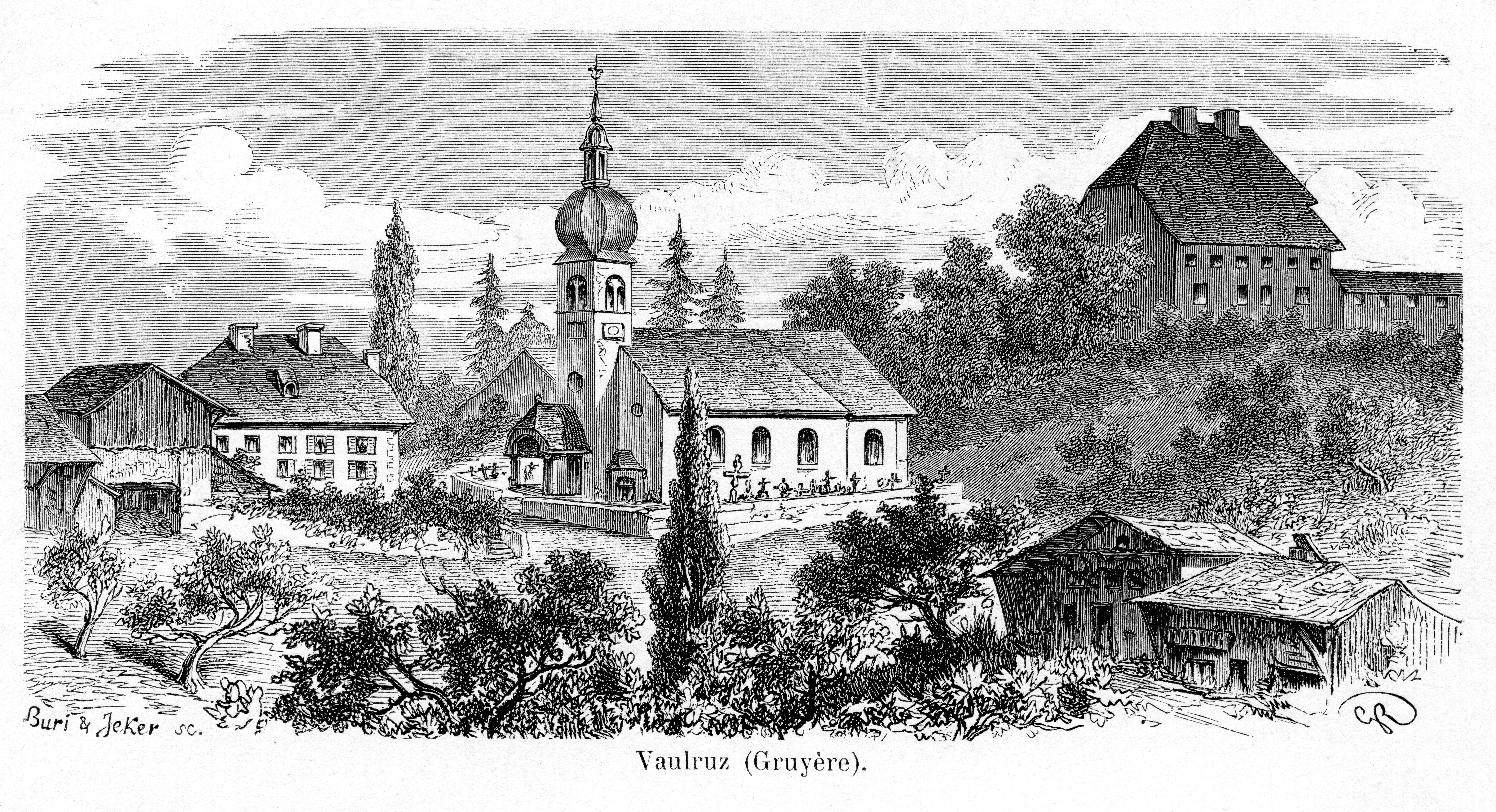 Gustave Roux 12 Vaulruz (Gruyère)